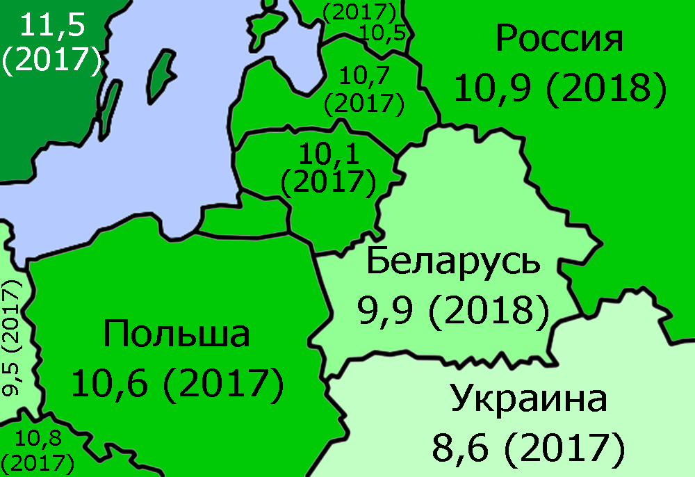 Birth rate in Belarus and neighbouring countries, 2017-2018